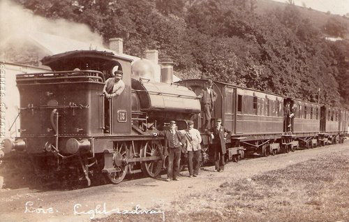 Train at Looe, Cornwall, about 1905